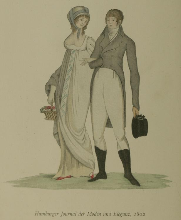 German fashion illustration, 1802